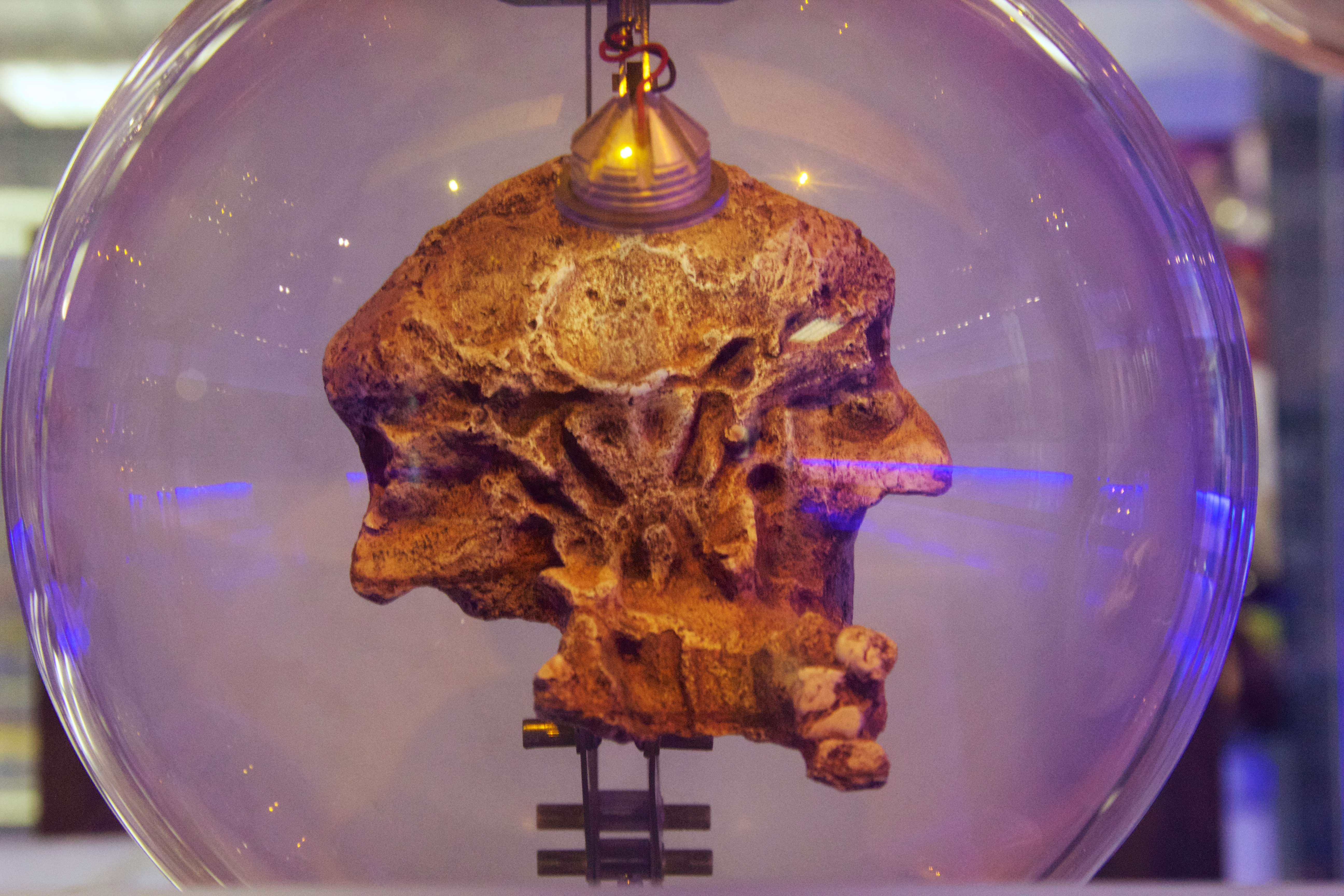 Australopithecus africanus, cranium without face, (MLD 37/38), Makapansgat, 1958/59